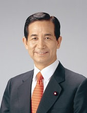 Kōzō Yamamoto was inaugurated as Minister of State for the Promotion of Overcoming Population Decline and Vitalizing Local Economy in Japan on August, 2016.